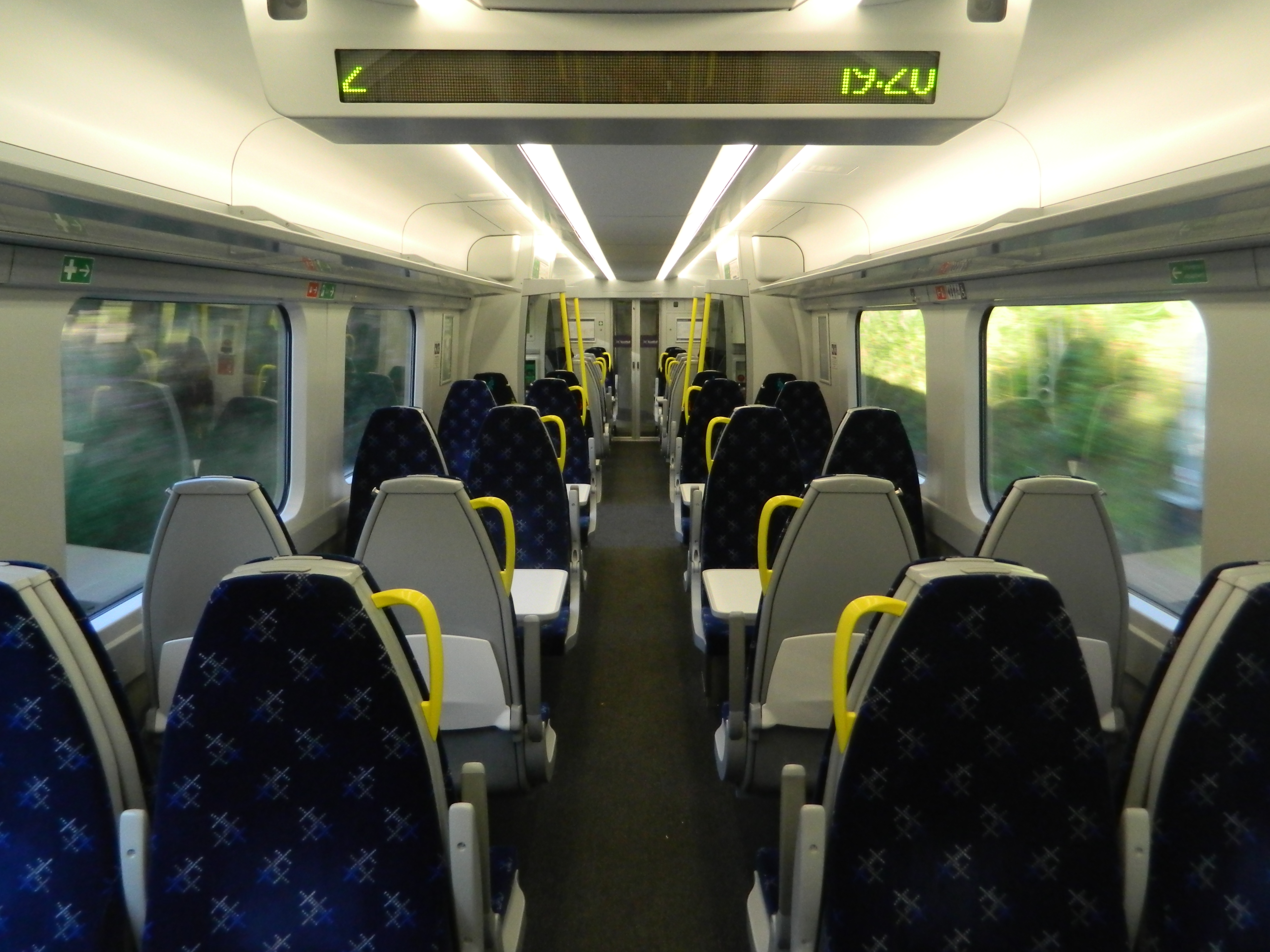 The standard class interior of a Class 385 unit, in use with Abellio ScotRail. This was taken within the first few weeks of service, on the 1915 Glasgow Queen Street to Edinburgh Waverley service.